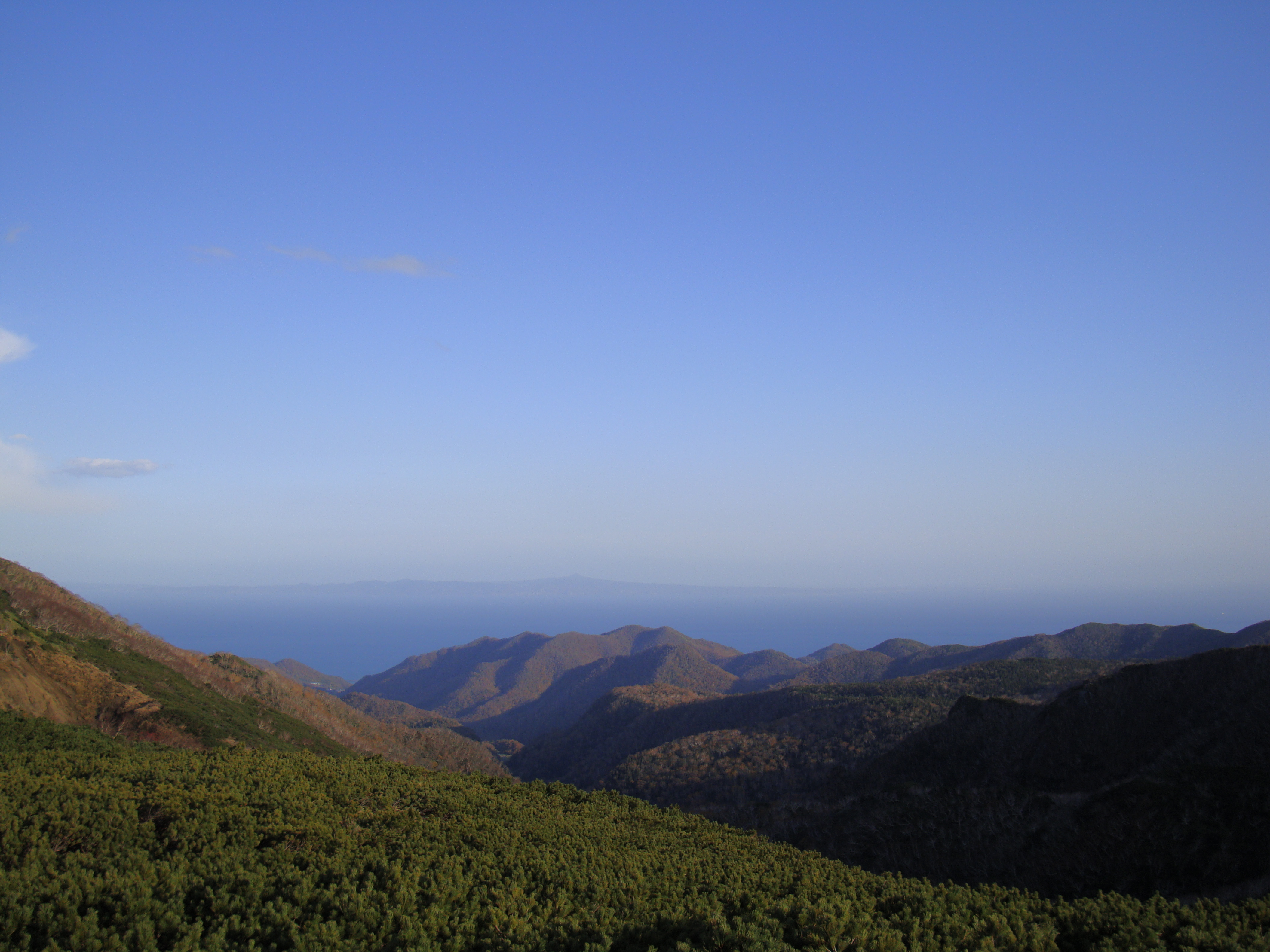 View of Kunashir Island from Shiretoko mountain pass